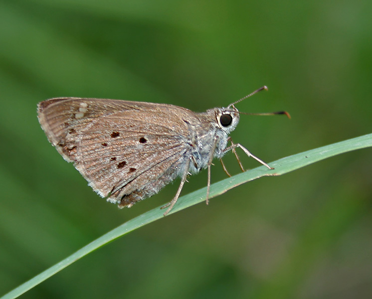 Indian Palm Bob Suastus gremius at Talakona forest, in Chittoor District of Andhra Pradesh, India.